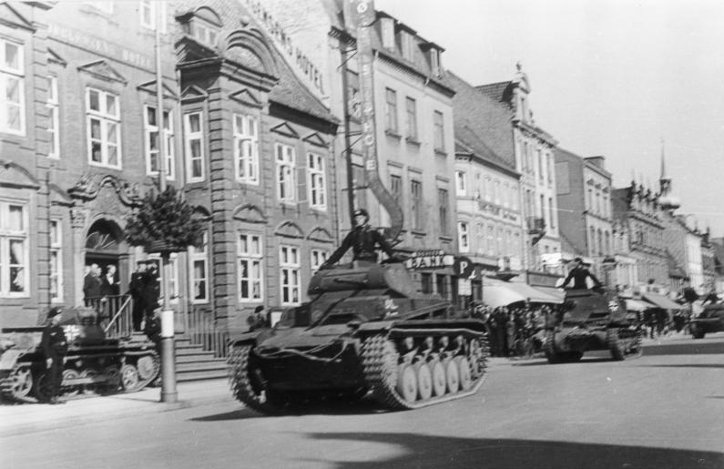 "Denmark.- Parade of German Panzer IIs and Panzer Is in front of the permanent quarters of a tank commander in Horsens in Jutland; PK [Propagandakompanie] Staffel D"